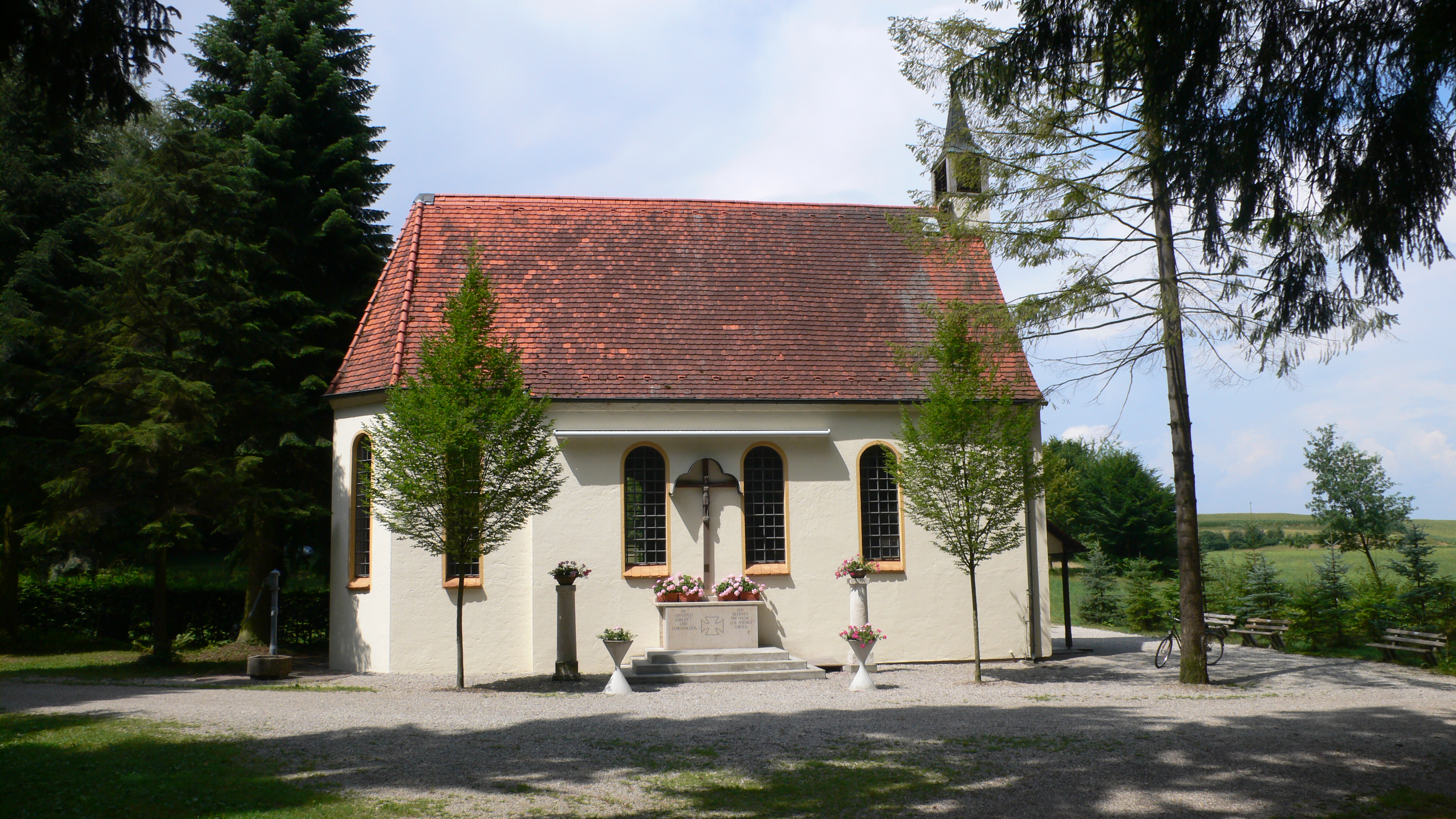 Unterbaar, view of the Pilgrimage Chapel "Maria im Elend" from south.